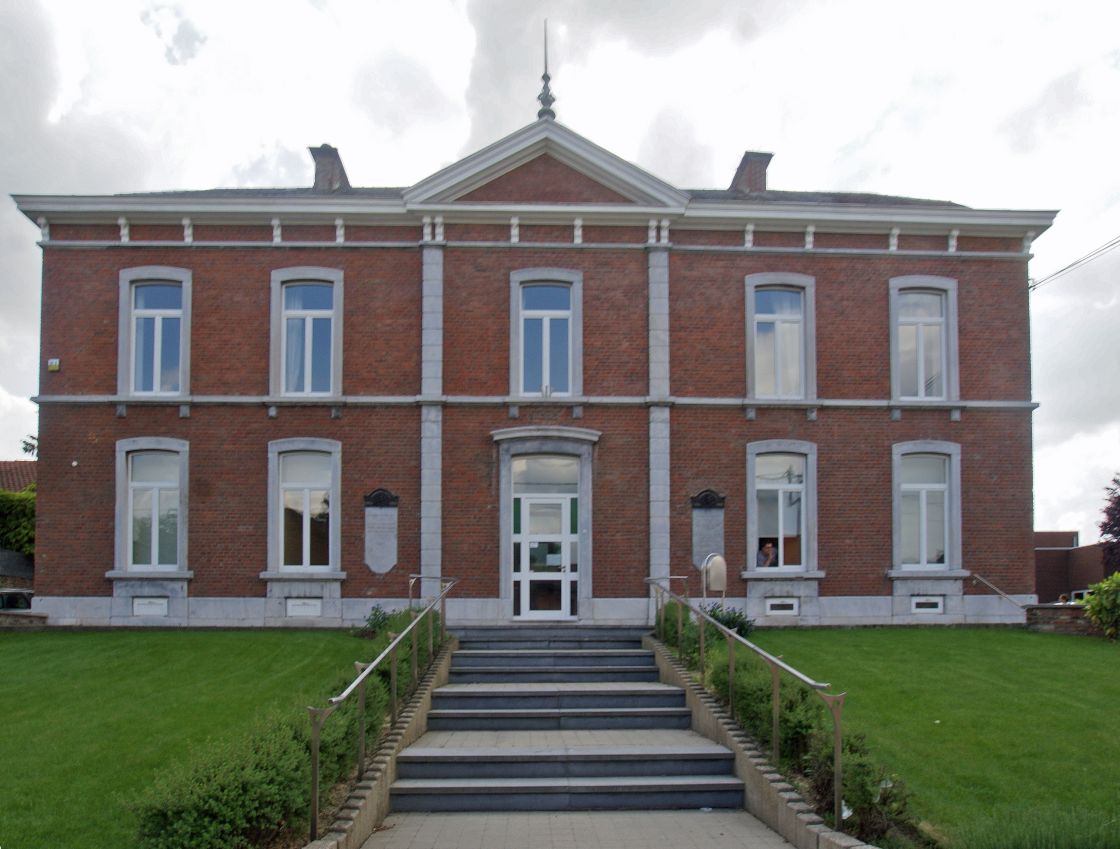 Verlaine, Belgium: Town Hall